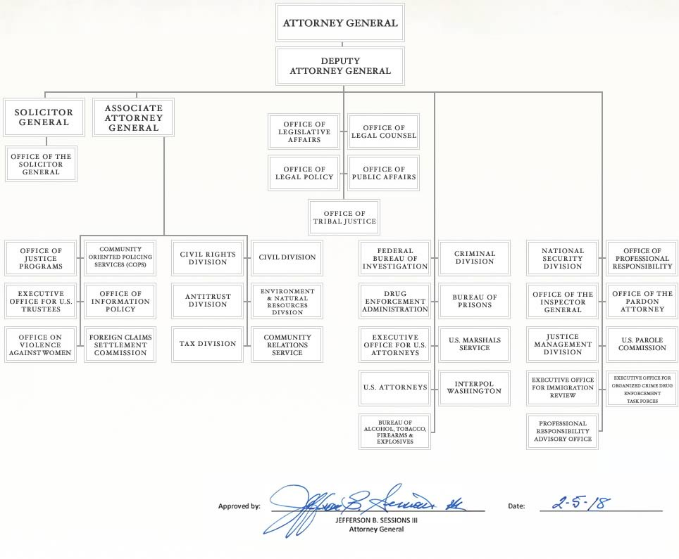 United States Department of Justice organization chart 2018